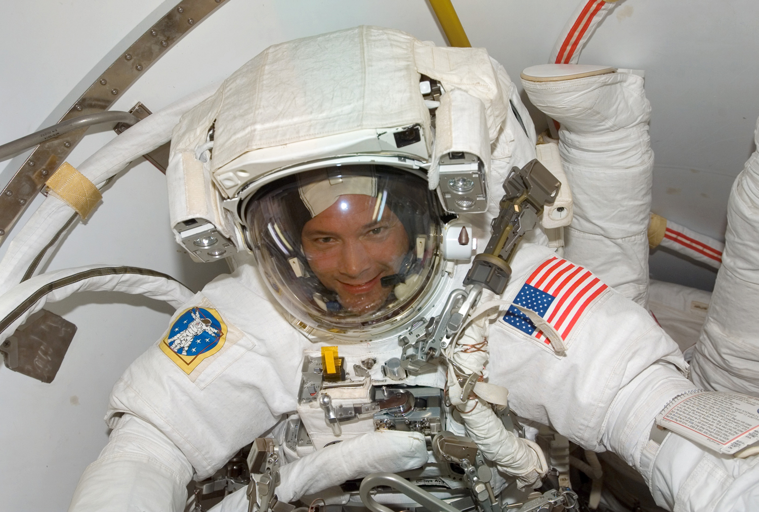 Astronaut Doug Wheelock shares the airlock with astronaut Scott Parazynski, as the two mission specialists prepare for their Oct. 26 spacewalk, the first of five scheduled by various shuttle and international space station crewmembers while the Space Shuttle Discovery is docked to ISS.